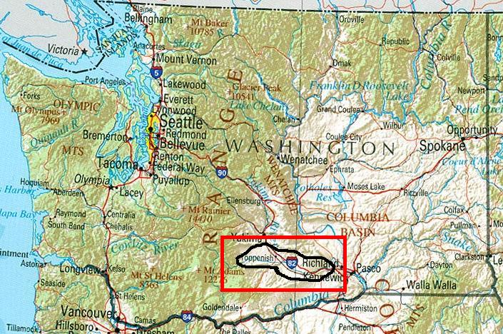 Modified map used to show the Yakima Valley AVA within Washington State. Modified copied similarly released to public domain. *note Map excludes depiction of southern Horse Heaven Hills AVA which is also part of Yakima Valley. Will hopefully try to get an updated map at some point.